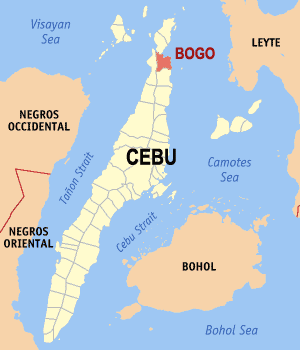 Map of Cebu showing the location of Bogo